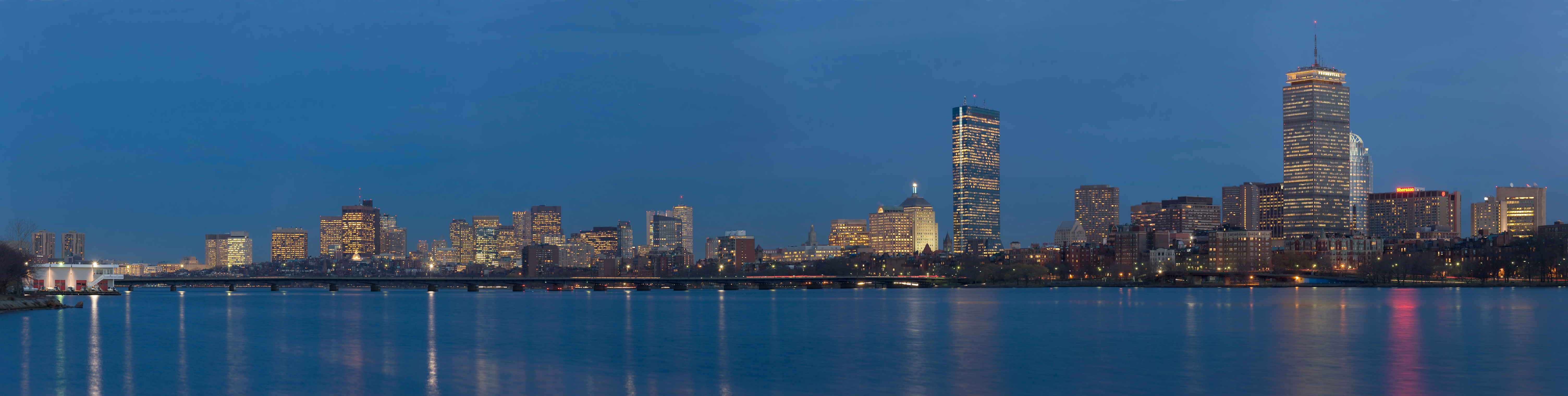 This picture shows a panorama of Boston (USA).